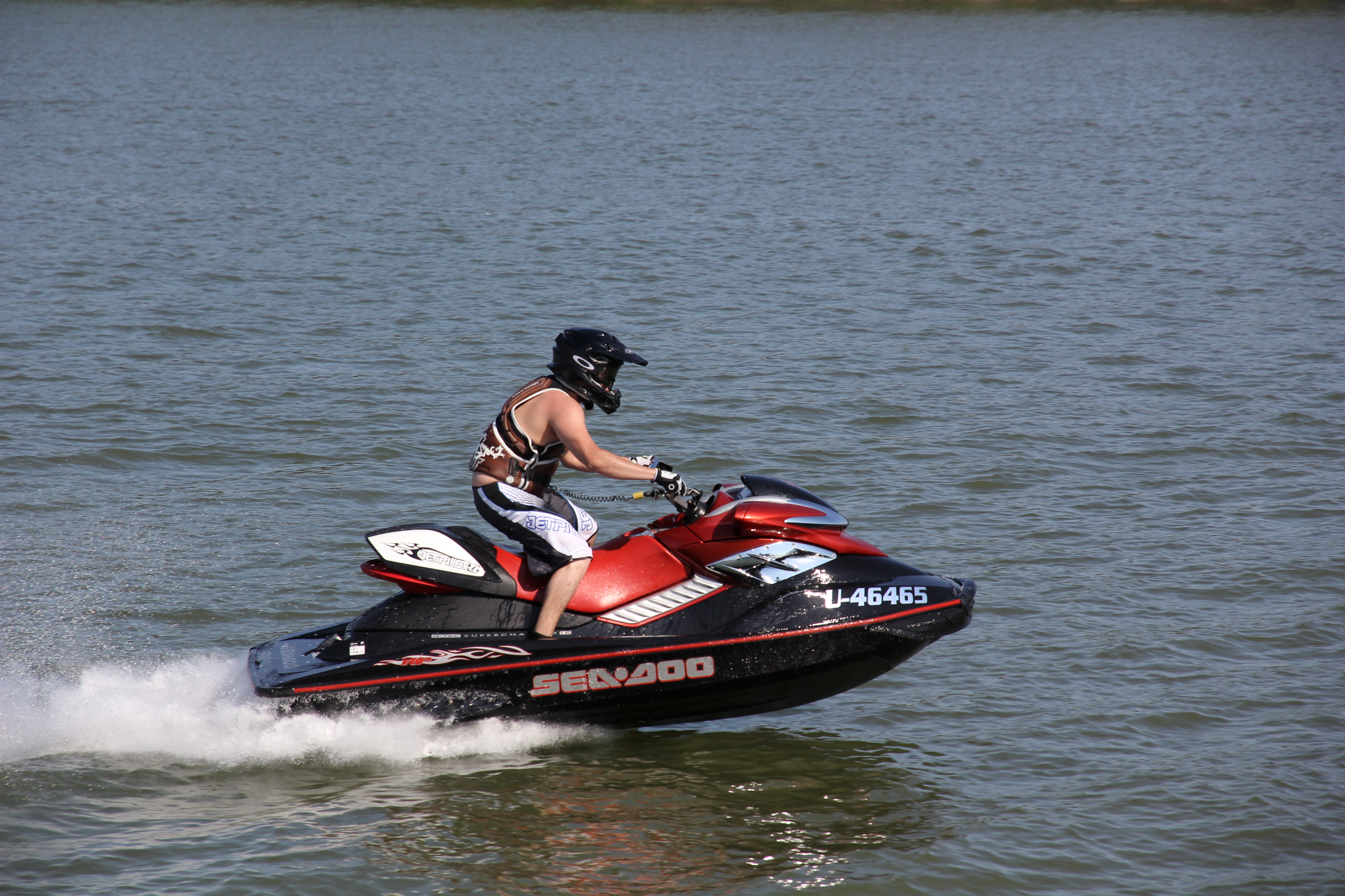 A jetskier with Sea-Doo RXP at Emäsalonselkä riding at the wake of J.L. Runeberg.